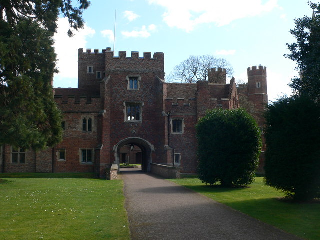 Gatehouse, Buckden Towers The manor belonged to the Bishops of Lincoln, and the palace was built in the 13th century. It is now a Christian retreat and houses the Catholic Parish Church of St Hugh of Lincoln.